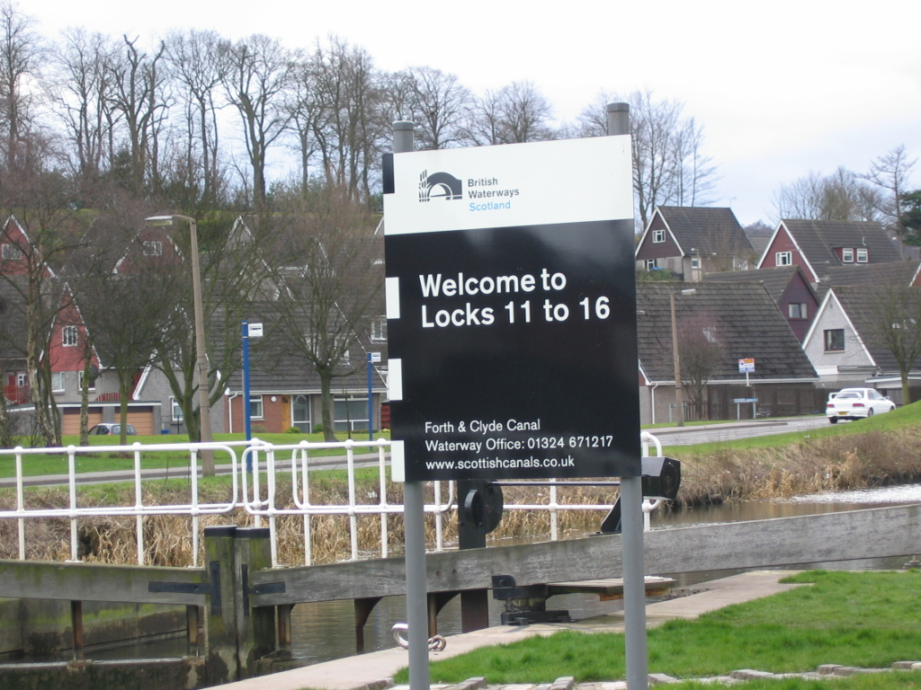 Forth & Clyde Canal, Falkirk, Scotland